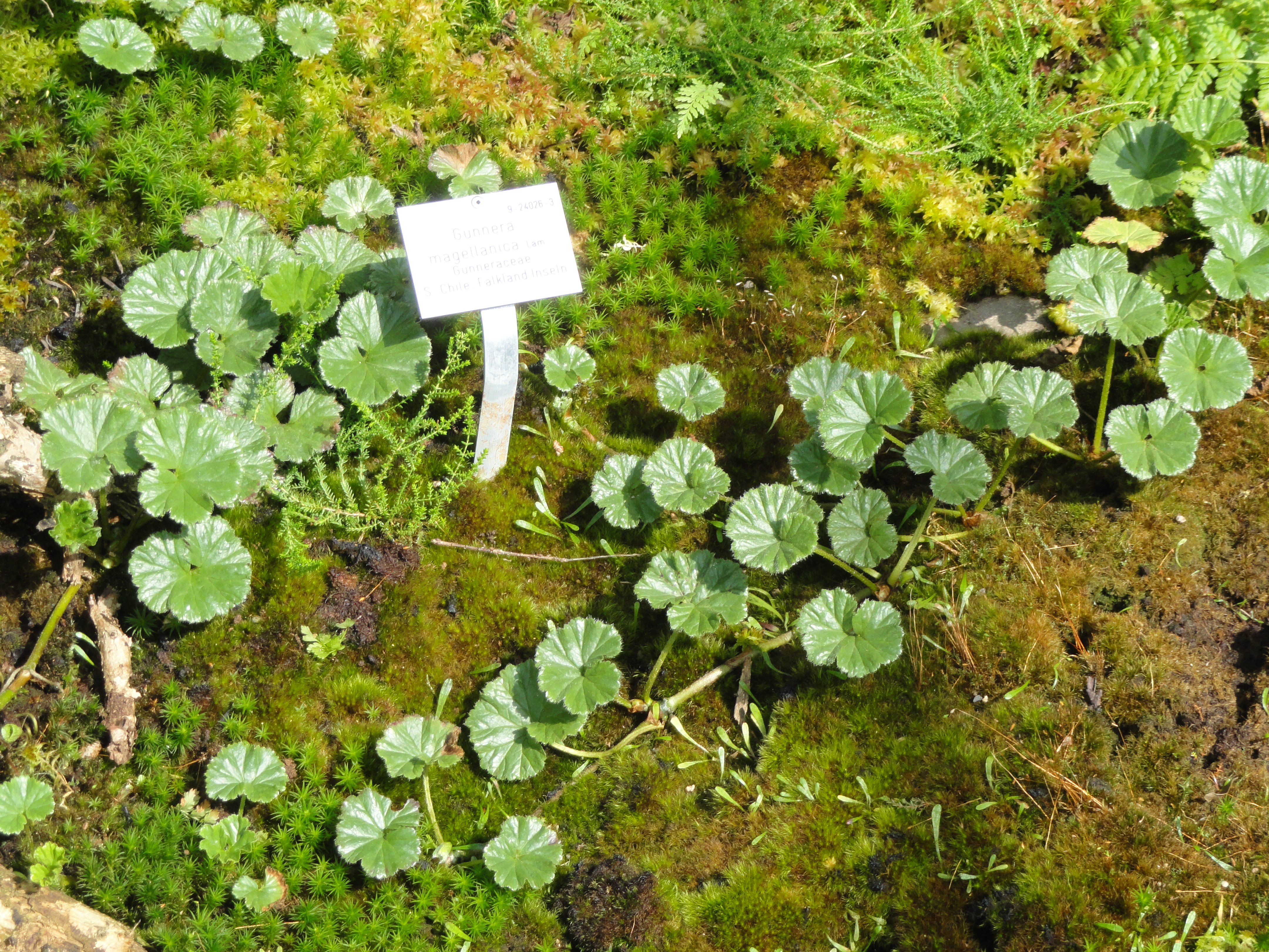 Botanical specimen in the Palmengarten, Frankfurt am Main, Germany.